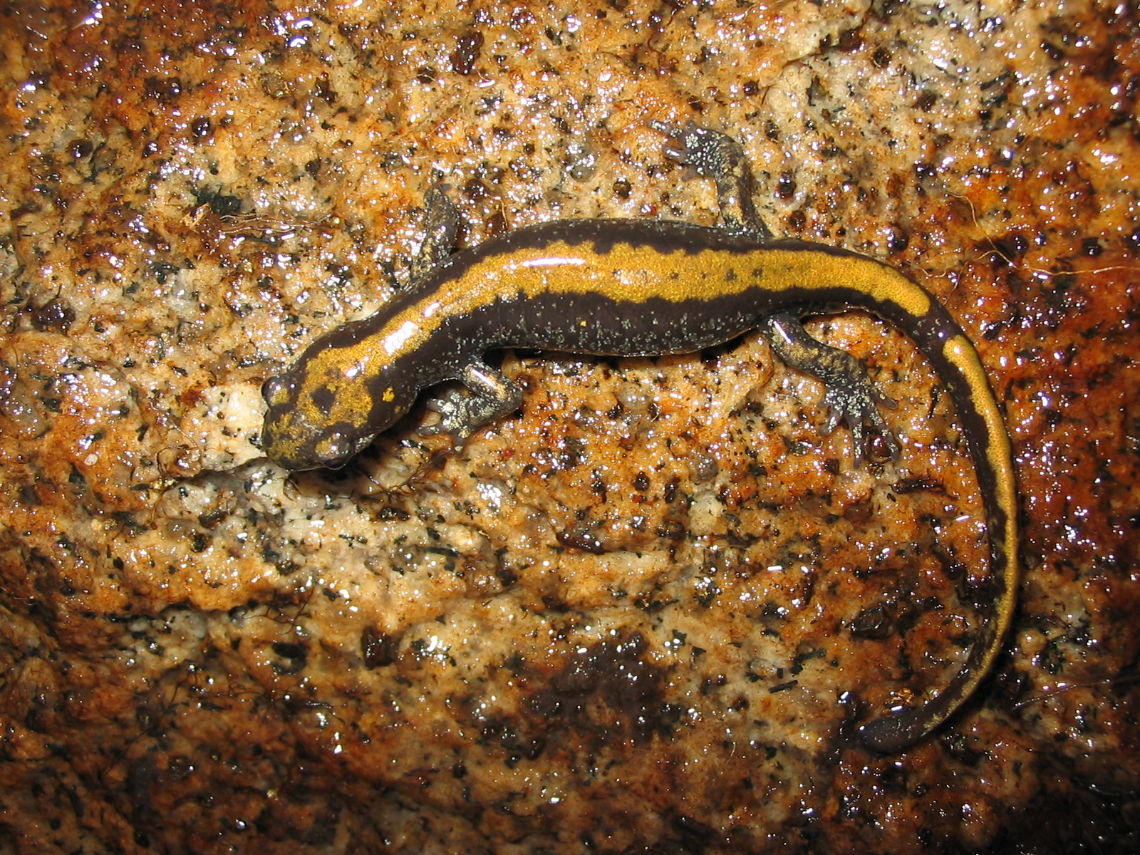 A long-toed salamander (Ambystoma macrodactylum) from central Interior British Columbia. It's tail has a marking that indicates tail autotomy and subsequent regrowth.